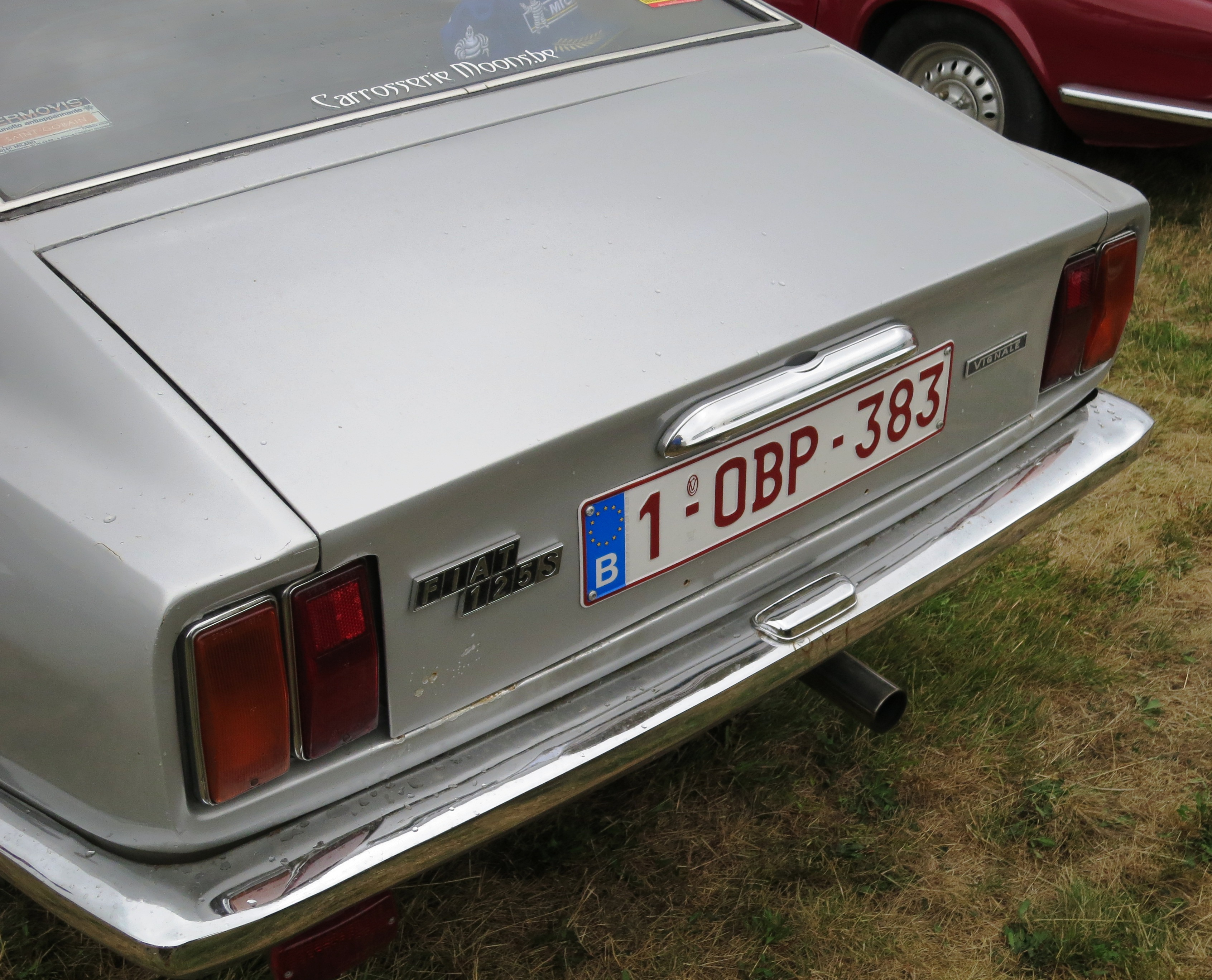 Fiat 125S Vignale showing the names on the back of the car